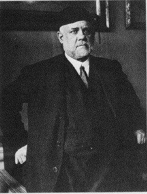 foto of art-dealer Ambroise Vollard (1866-1939)